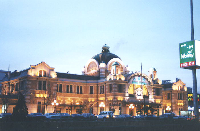 Old Seoul Station